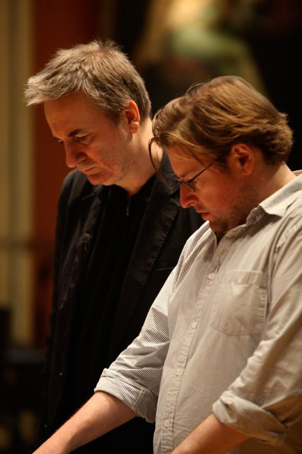 A photograph of Chris Austin (right) and Paul Morley (left) in rehearsal for Paul's "yet another example of the porousness of certain objects (i)" at the Royal Academy of Music.